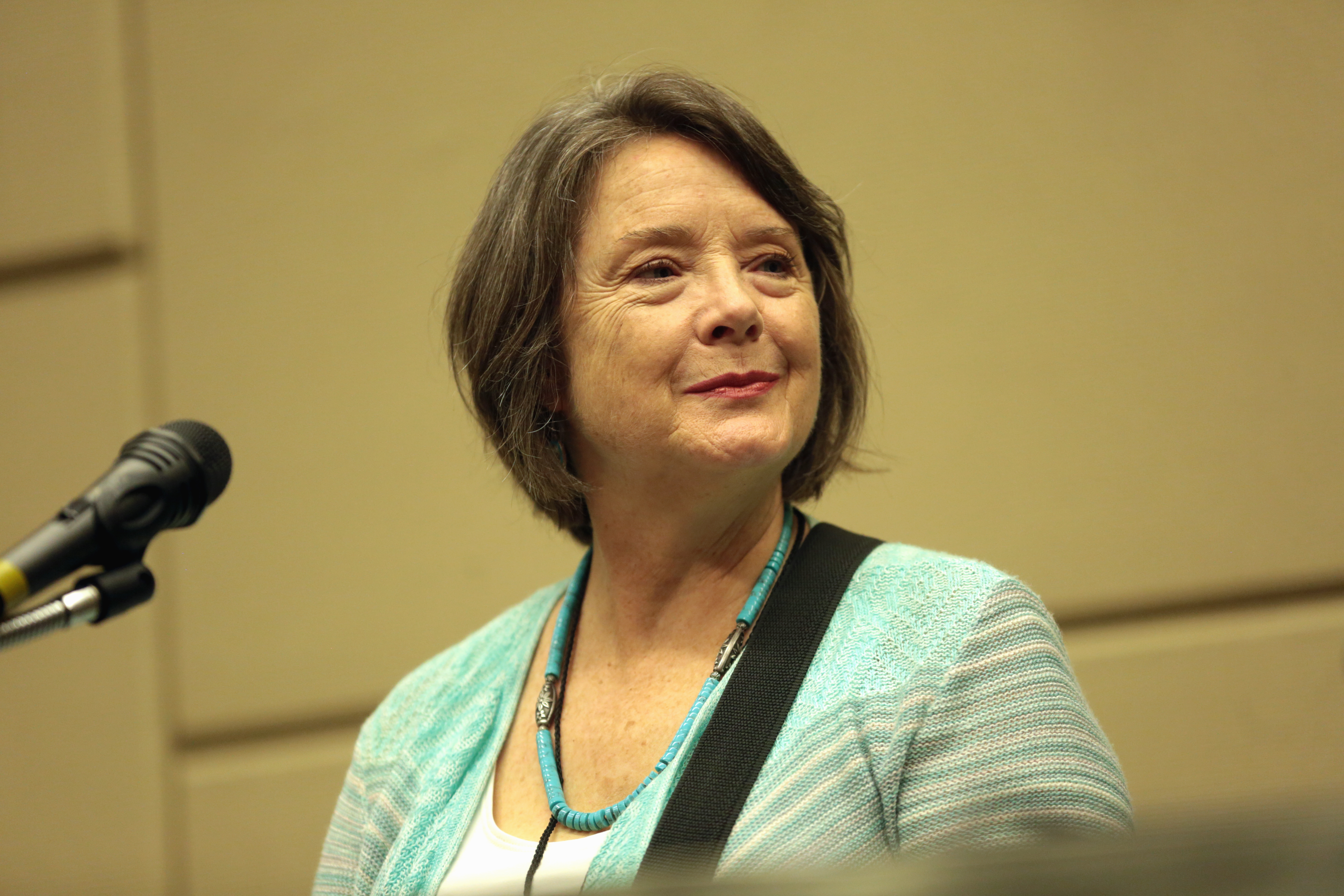 Ellen McLain speaking with attendees at the 2017 Game On Expo, for "The Orange Box", at the Phoenix Convention Center in Phoenix, Arizona.